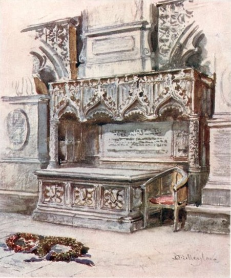 Chaucers tomb